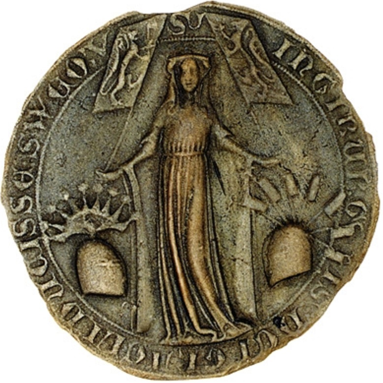 Ingiburga, Princess of Norway, Duchess of Sweden (1301-1361) as depicted on her royal seal